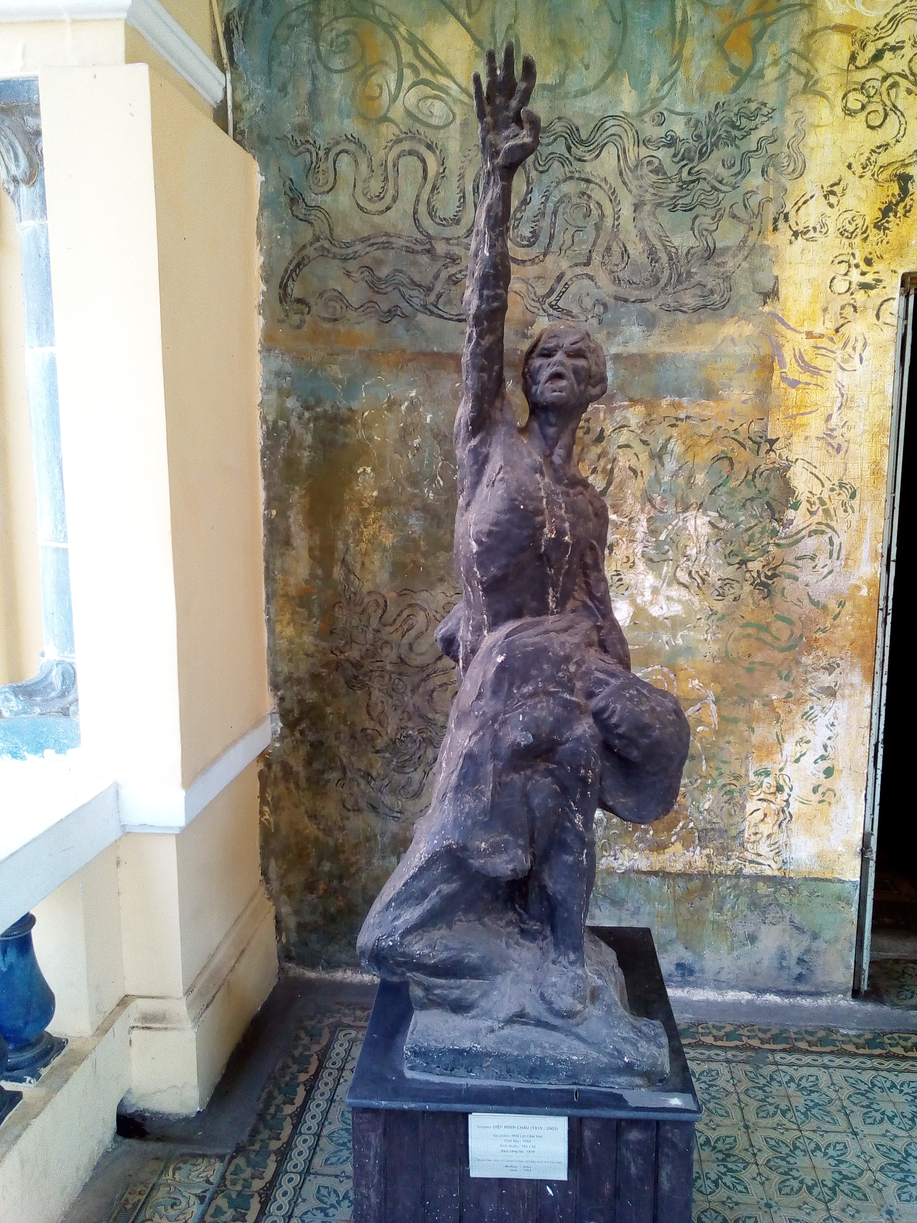 Poly statue "Phu Loi people feel hatred for the enemy" in Ho Chi Minh City Museum of Fine Arts. It was made by Diệp Minh Châu in 1959. Dimensions: 193 × 62 cm.